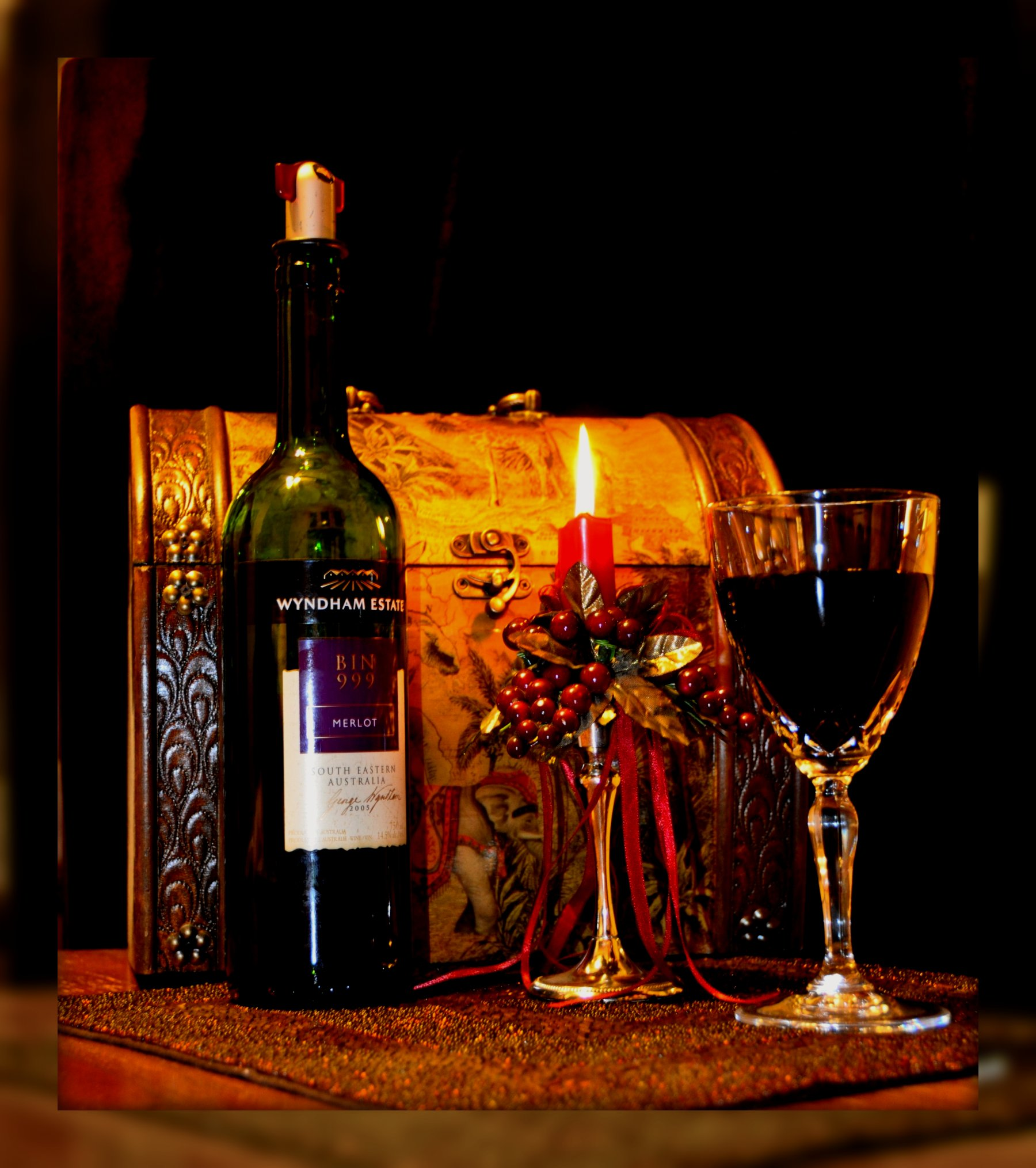 ♫♫ RED RED WINE ♫♫